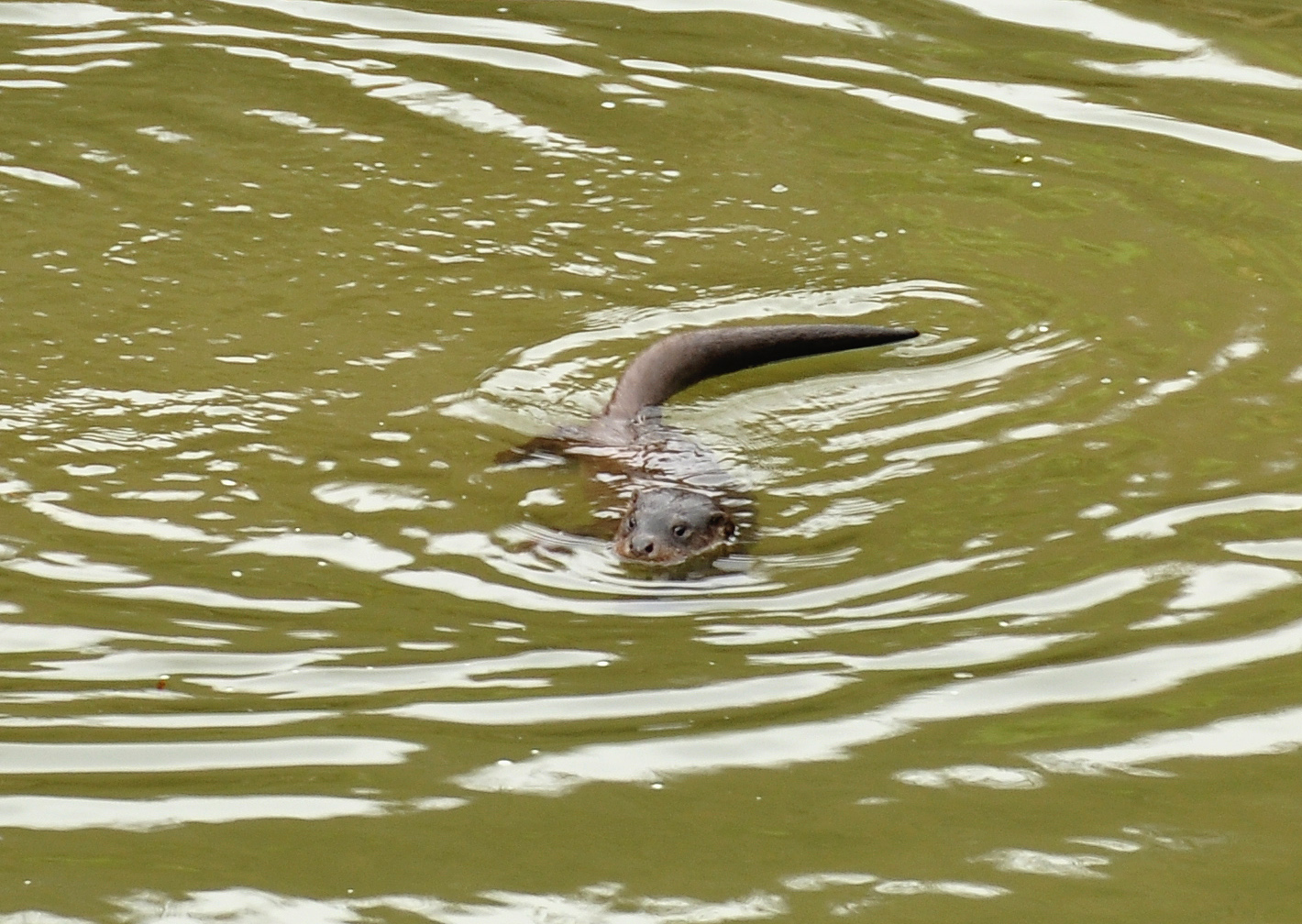 An otter swimming in the River Torridge, near the third viaduct from Great Torrington, Devon. This is close to the birthplace of the fictitious Tarka the Otter.